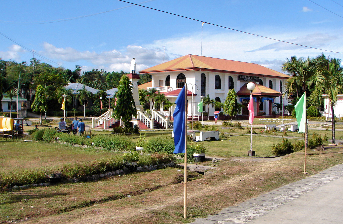 Dimiao, Bohol, the Philippines